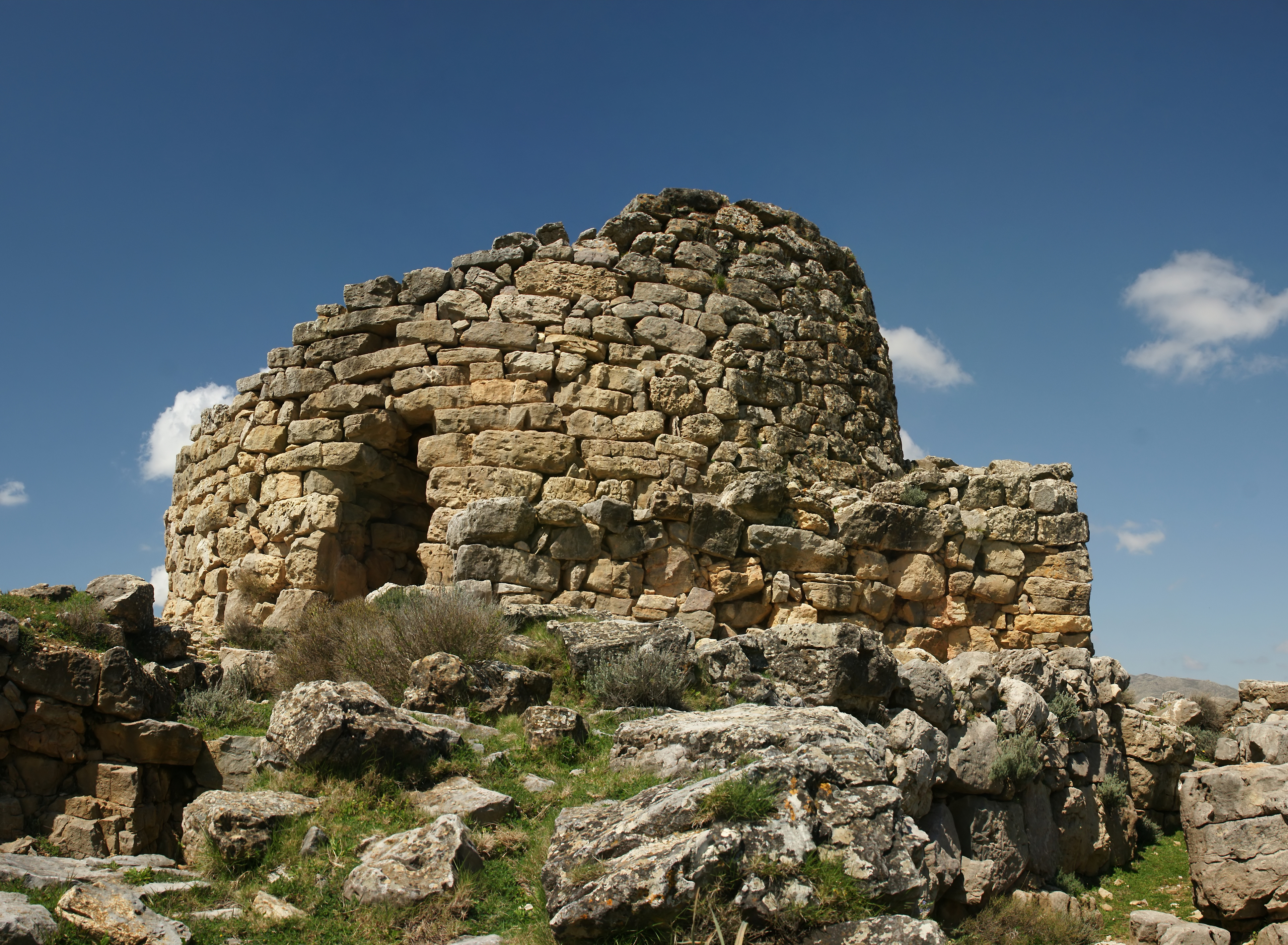 Nuraghe Ardasái along the SS125, Sardinia, Italy